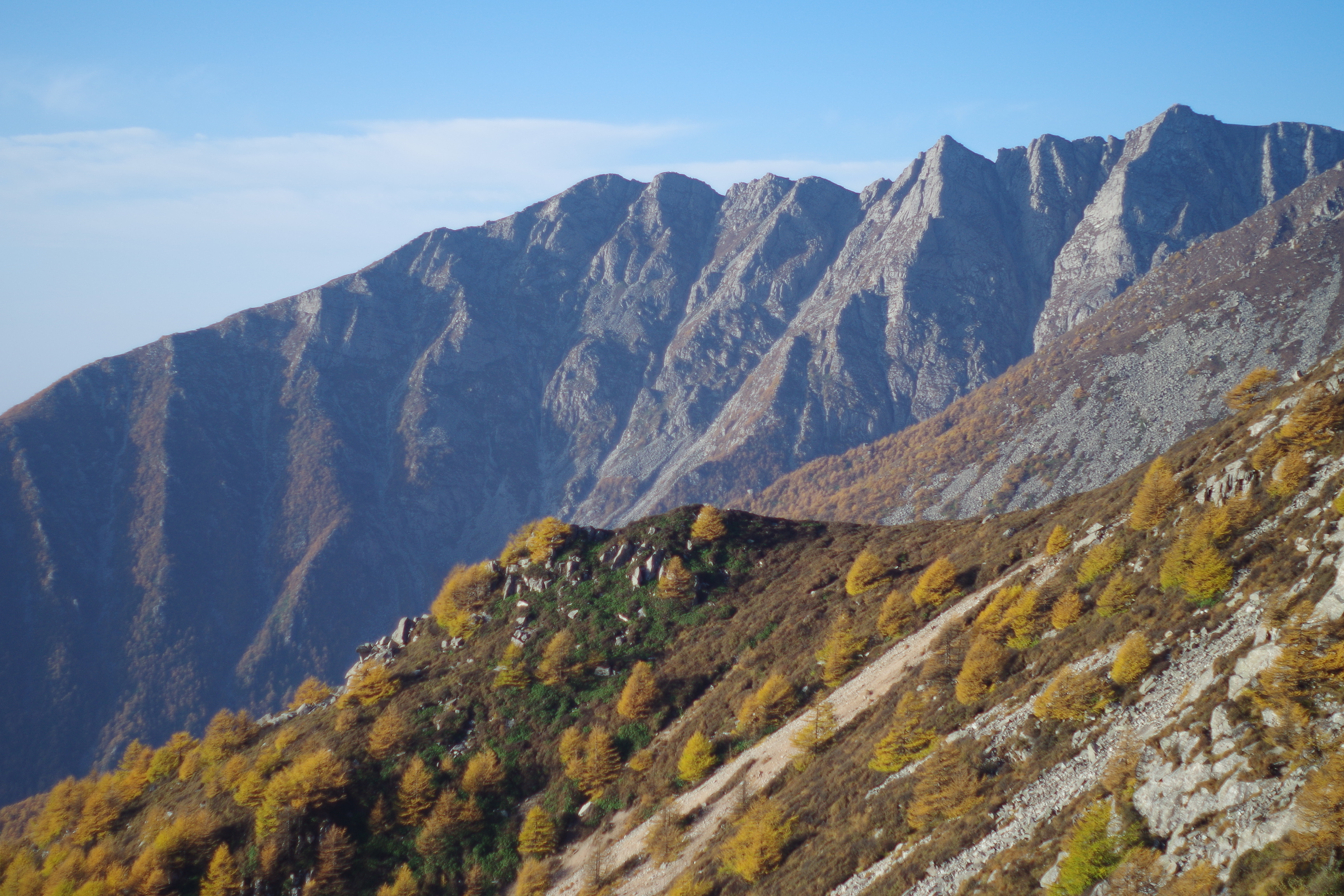 Mount Taibai National Forest Park, Shaanxi, China